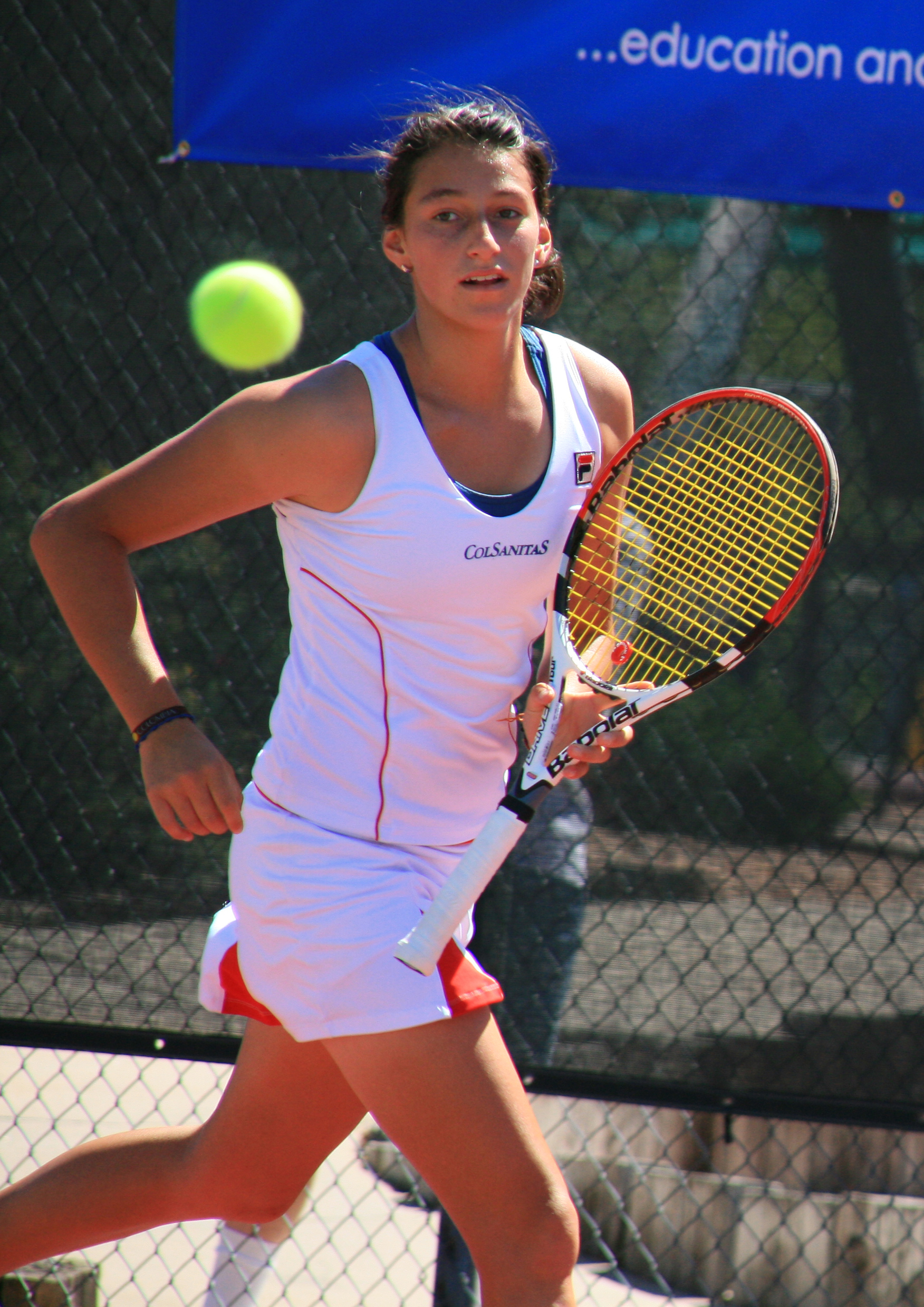 Mariana Duque Mariño at the Coleman Vision Tennis Championship in Albuquerque, New Mexico.